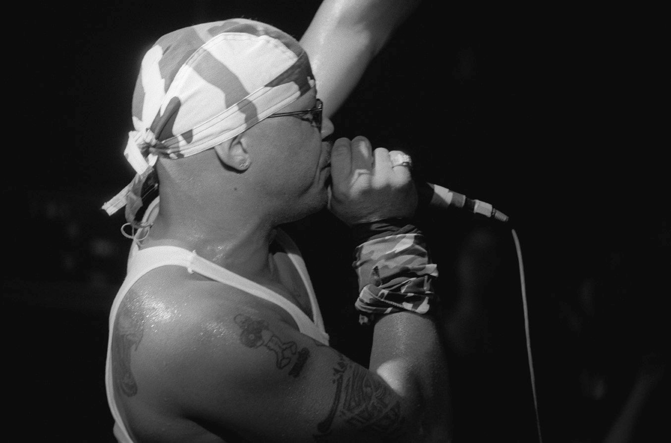 Hamburg/Germany 1999